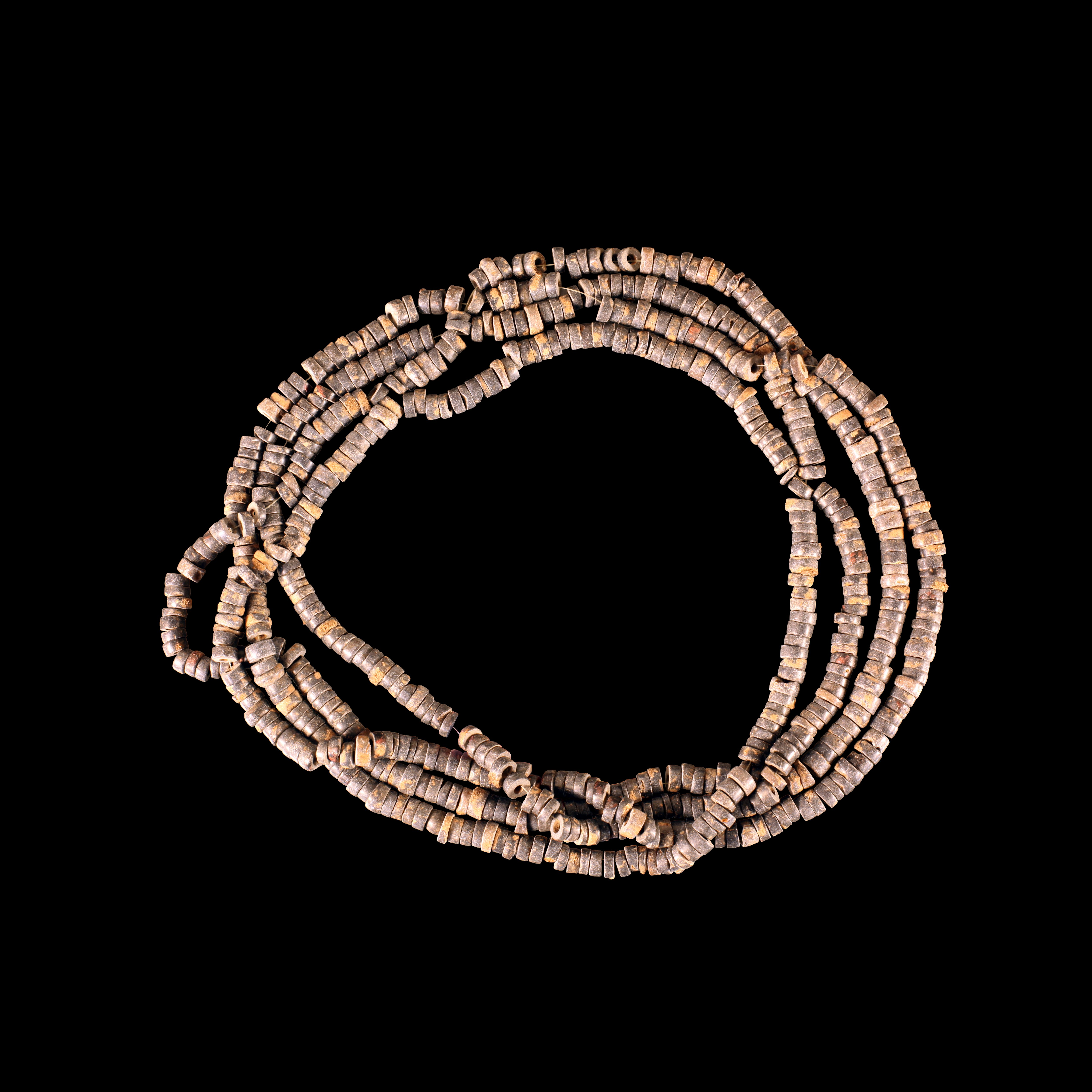 Neolithic necklace, calibrated discoid talc pearls detail